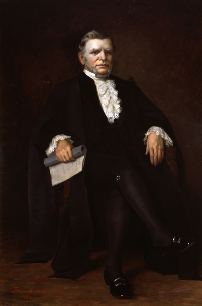 Portrait of Sir William Buell Richards (1815–1889), the first Chief Justice of the Supreme Court of Canada.